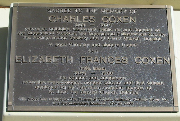 Headstone of naturalists Charles Coxen and Elizabeth Coxen, Tingalpa Anglican cemetery